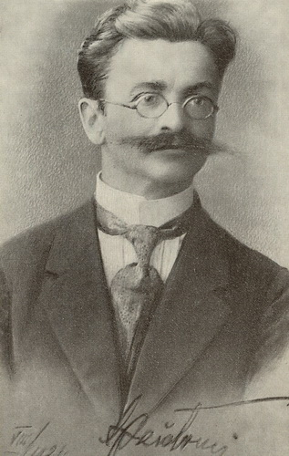 Belarusian poet, artist and translator Albert Paŭłovič Беларуская (тарашкевіца): Беларускі паэт, мастак і перакладчык Альбэрт Паўловіч